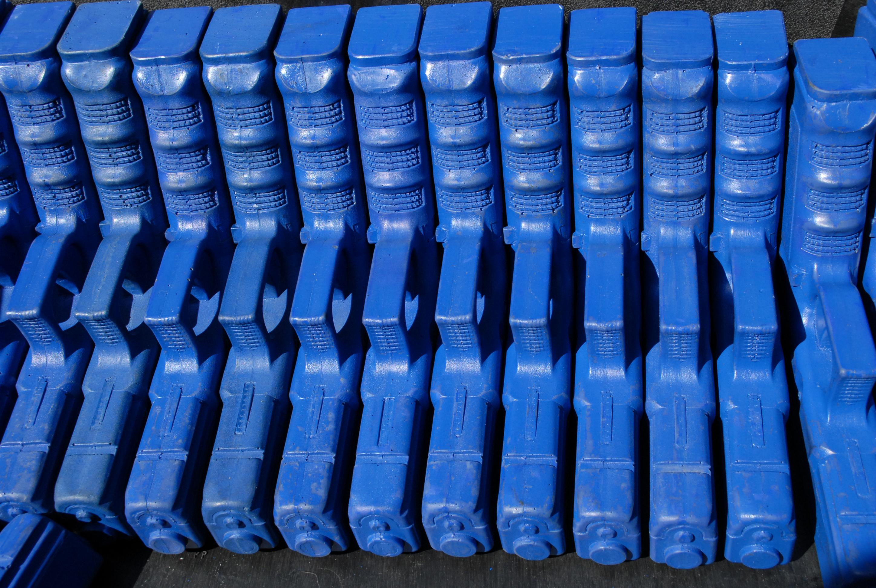 Plastic handguns, modeled after Glock 23 .40 Caliber Pistol, used by students during training given by FBI instructors during Exercise Tradewinds 2011. (FBI photo by Kurt Crawford)